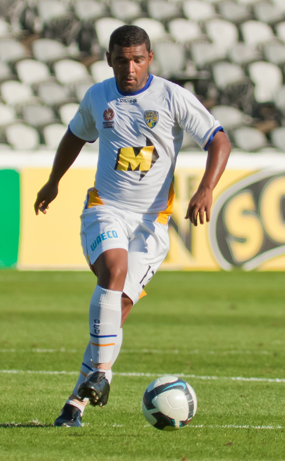 Robson Alves da Silva playing in a National Youth League game for Gold Coast United against the Central Coast Mariners.